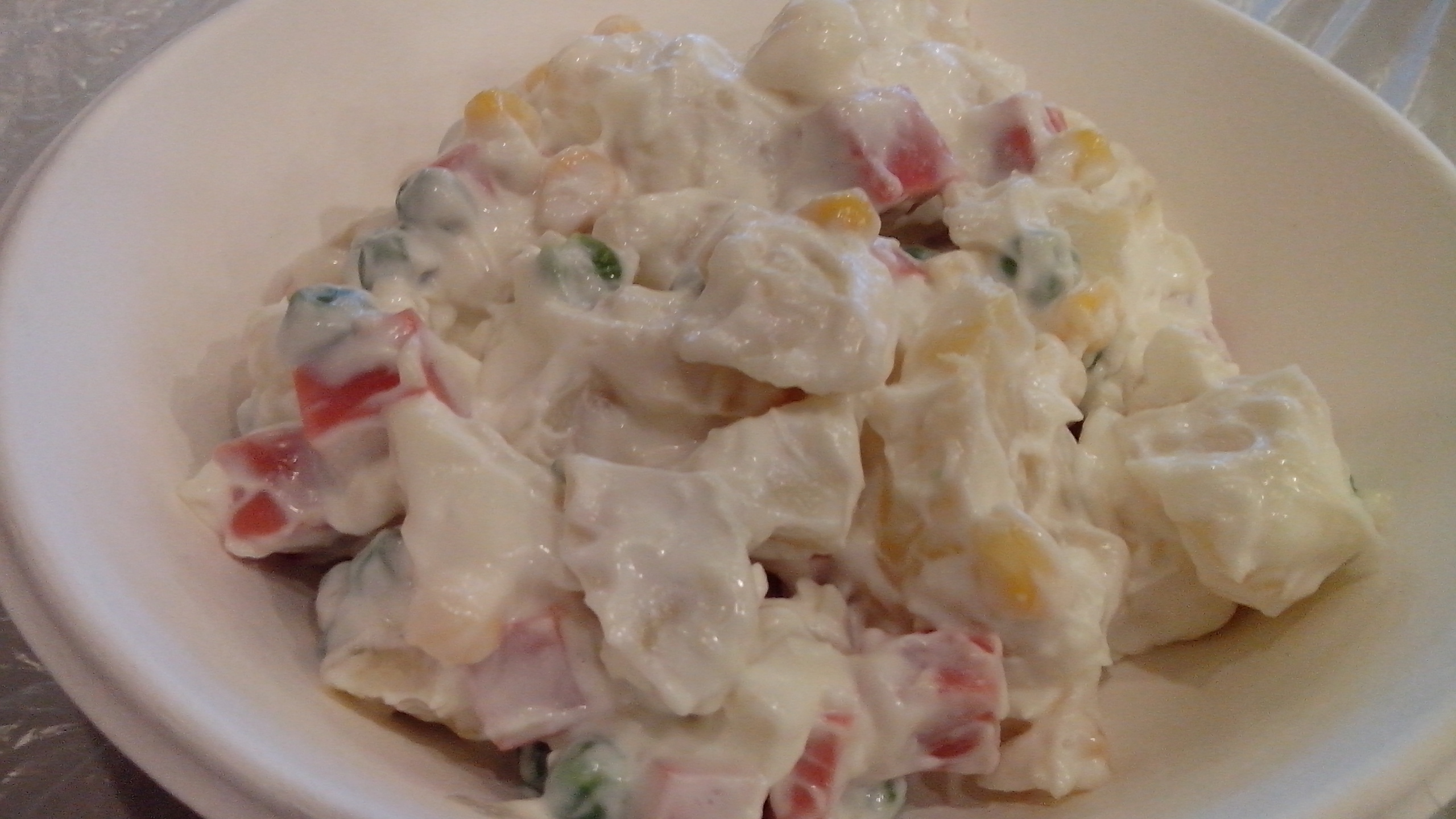 Cold Shanghai potato salad served at a local delicatessen in Shanghai